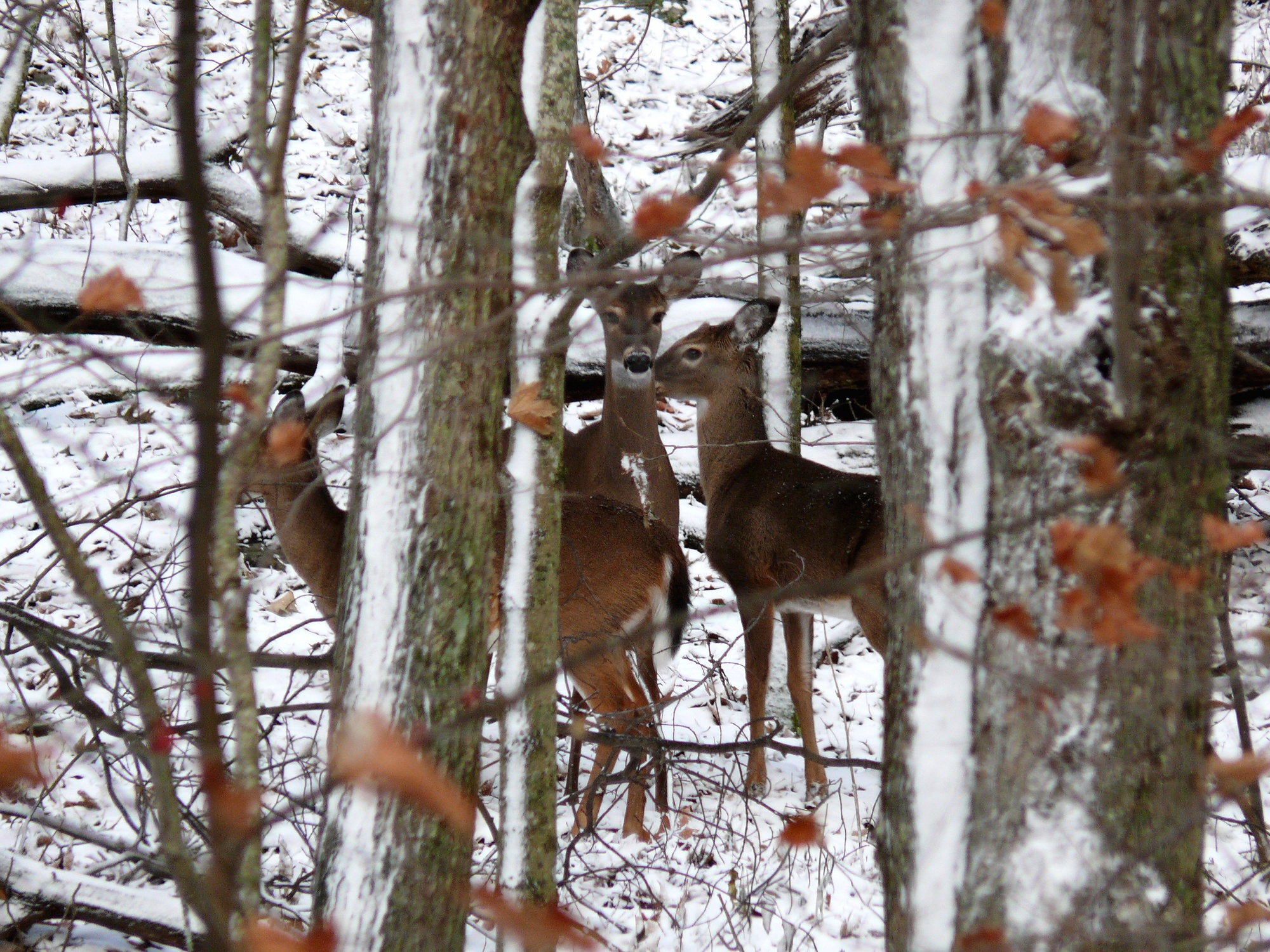 Three female White-tailed deer (Odocoileus virginianus) hide in the forest along the Blue Ridge Parkway.Photo taken with a Panasonic Lumix DMC-FZ50 in Caldwell County, NC, USA.Cropping and post-processing performed with The GIMP.